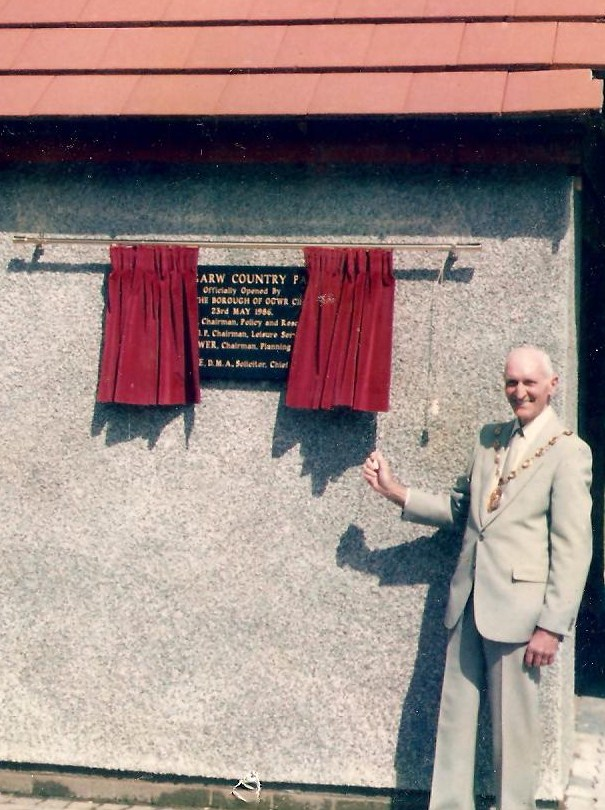 Bryngarw Country Park, Visitor centre opening ceremony